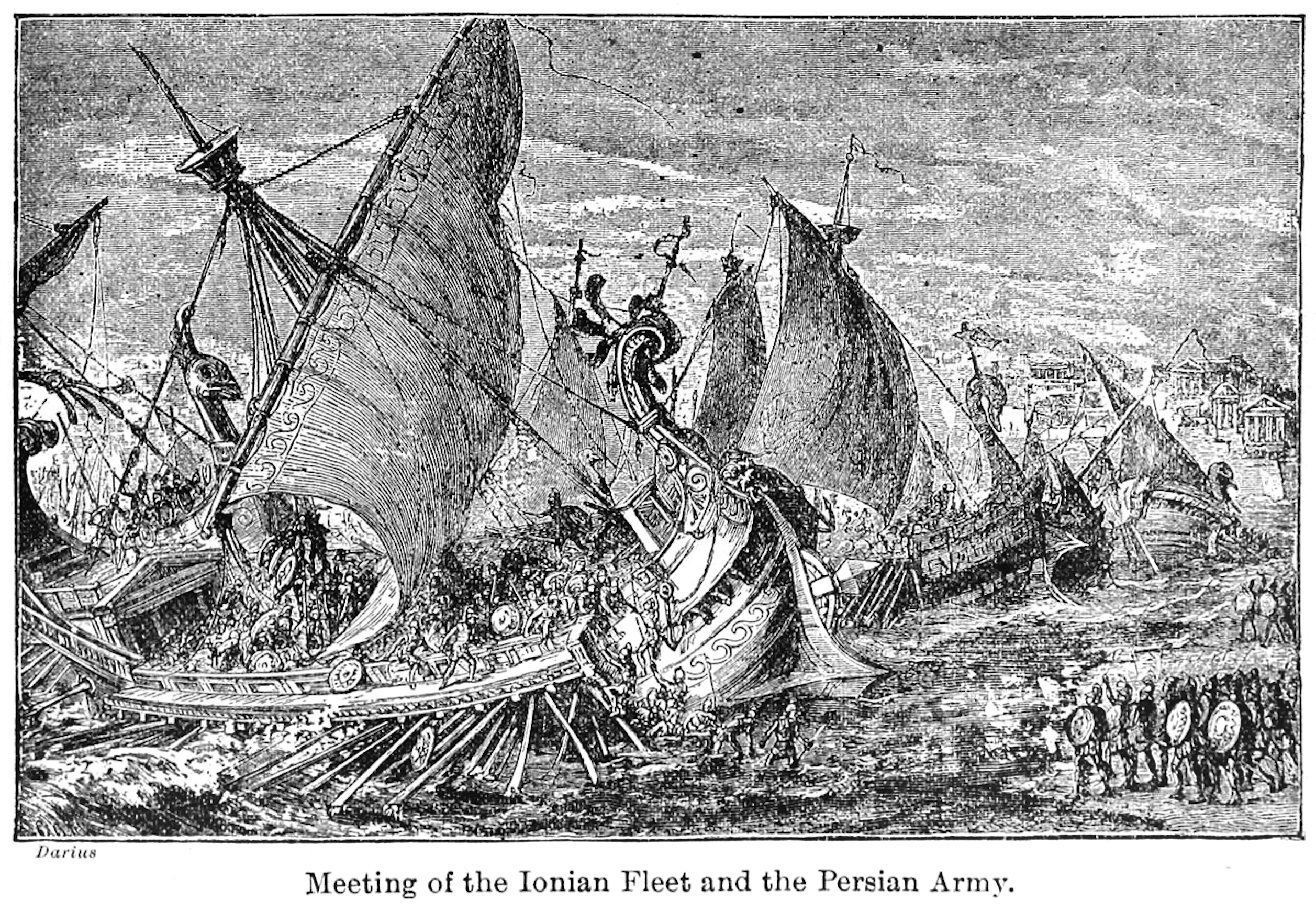 Meeting of the Ionian fleet and the Persian army